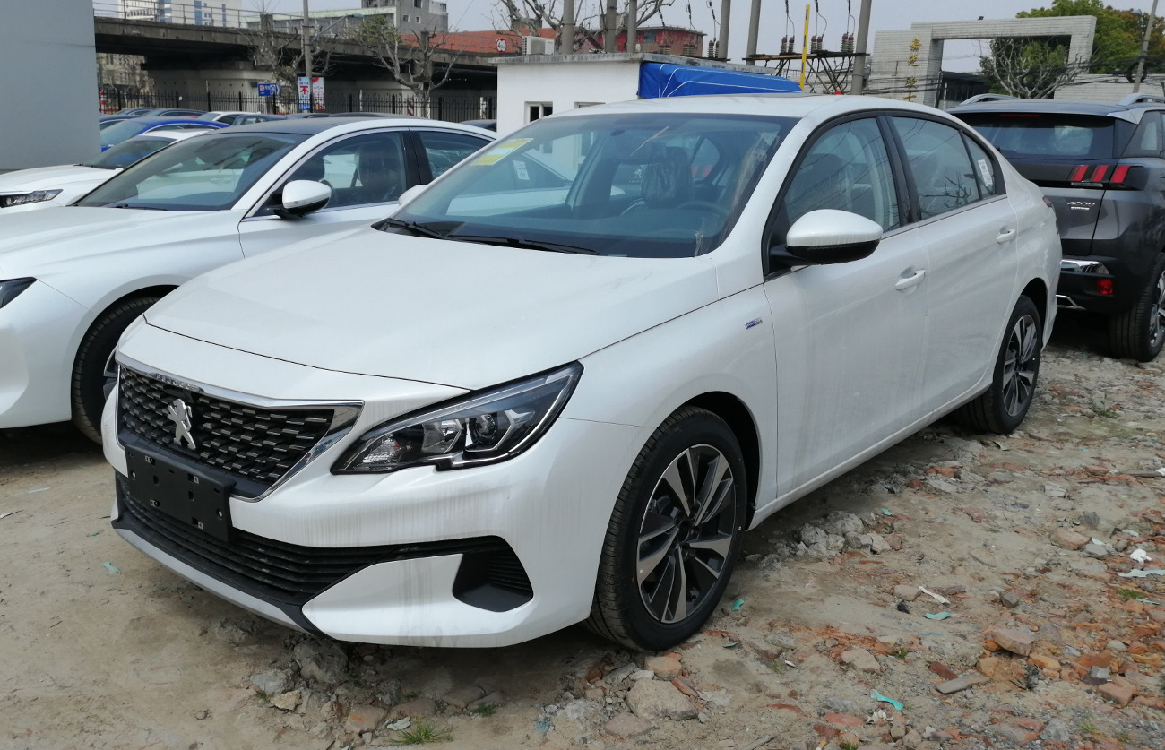 Peugeot 408 II facelift photographed in Shanghai, China.